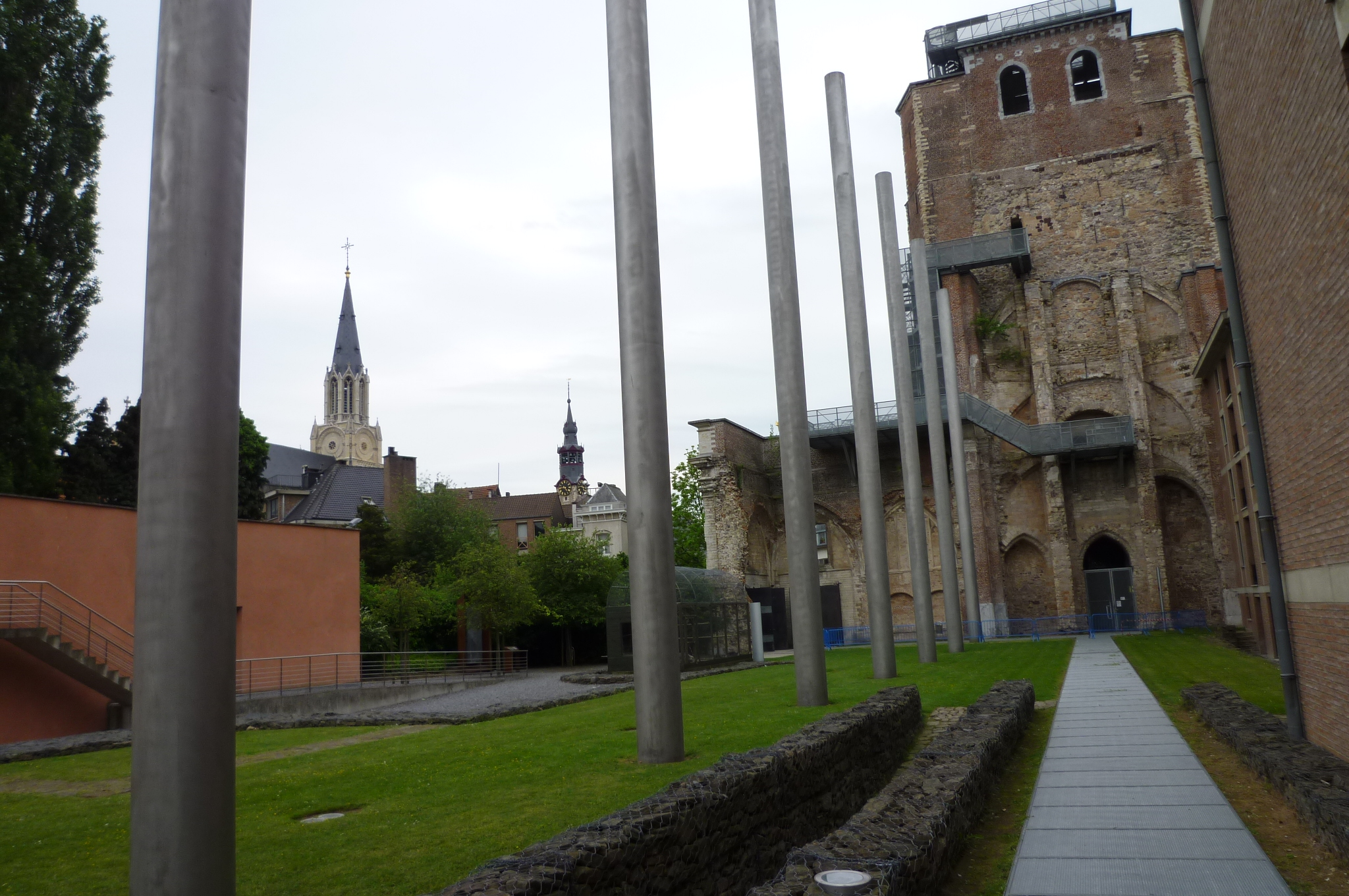 Ancient Saint-Trudo Abbey Site at Sint-Truiden (Belgium). The Abbey Tower is in the front, while the row of metal poles represent the original construction. At the horizon, the towers of the city hall (middle) and the O.L.Vrouwekerk (Our Lady's church, to the left) are visible.